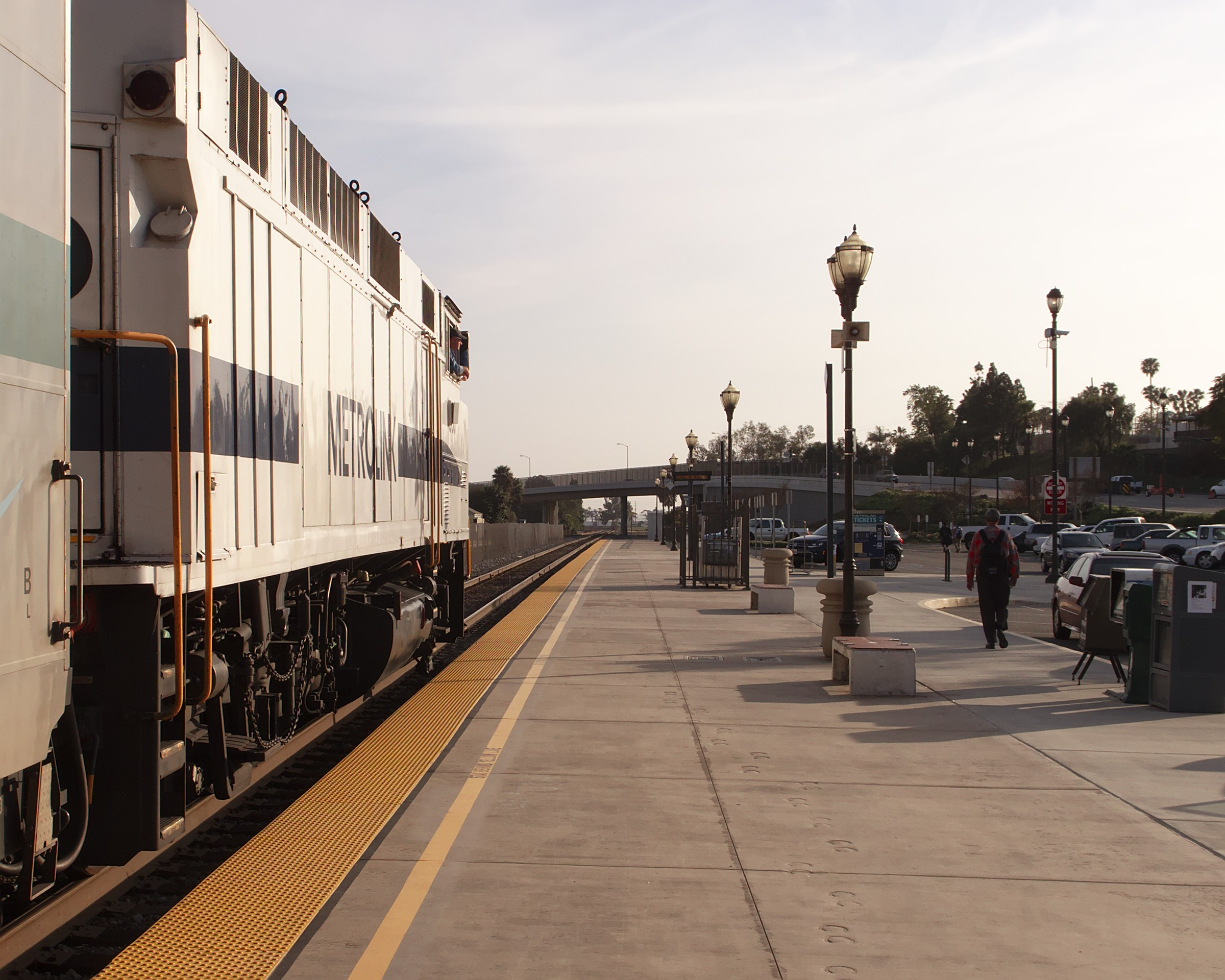 Camarillo train station, looking southwest at Lewis Rd. overpass.